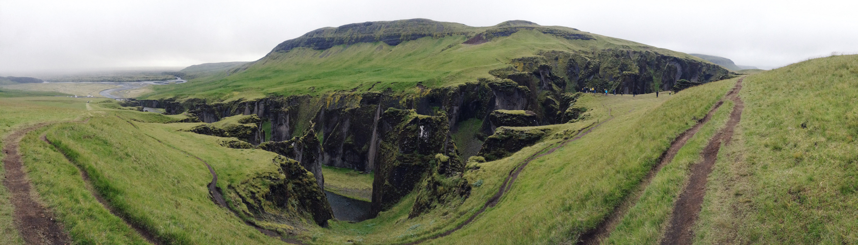 Panoramic landscape showing the Fjaðrárgljúfur canyon in South Iceland, viewed from the tourist footpath.